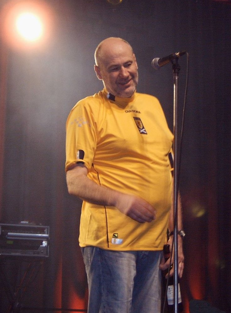 Fish during concert in Mainz